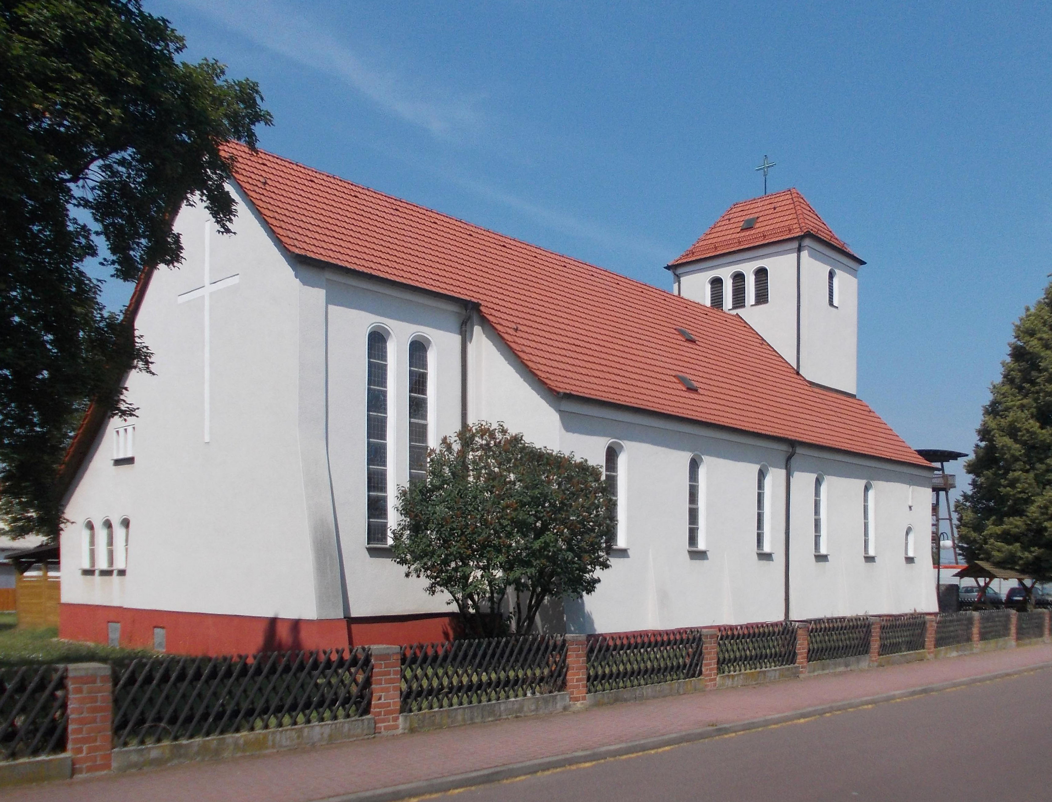 Roman Catholic St. Henry's Church in Neumark (Braunsbedra, district: Saalekreis, Saxony-Anhalt)